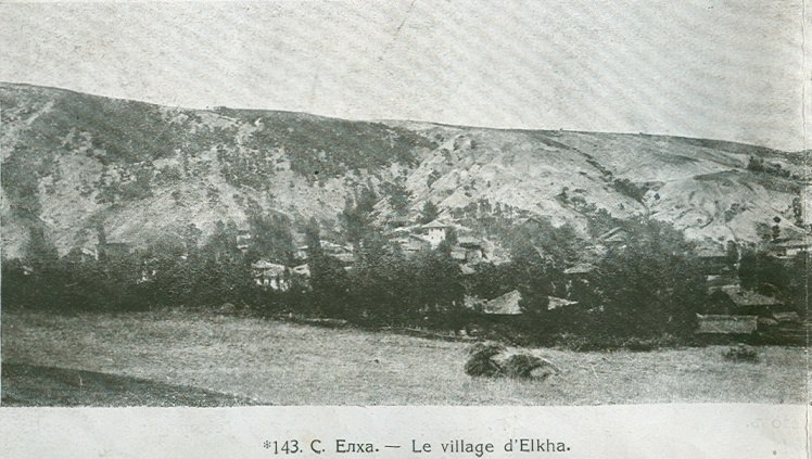 Village of Elha, Resensko, Republic of Macedonia